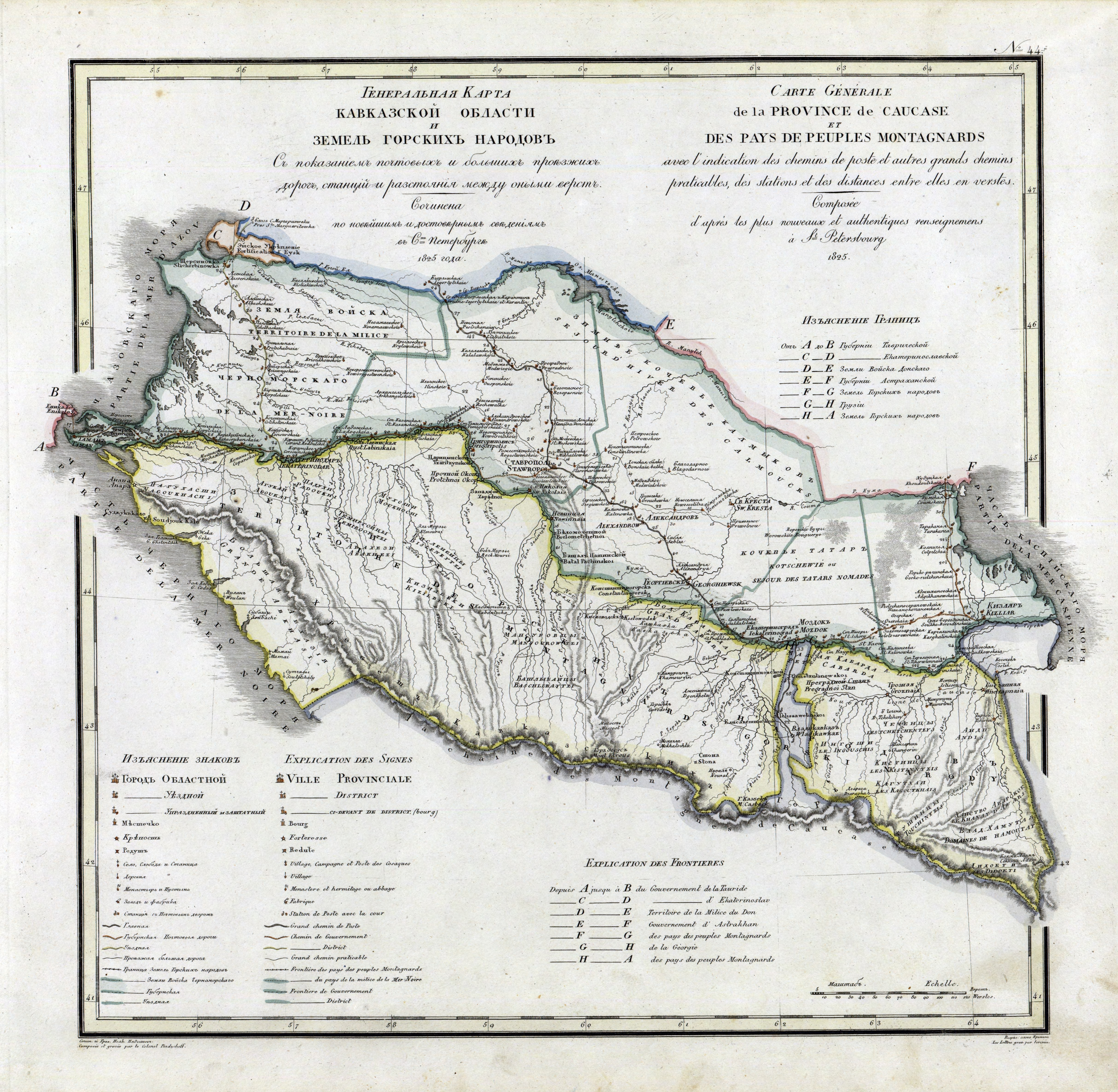 Map of Caucasus Oblast from geographic atlas of the Russian Empire (1821)